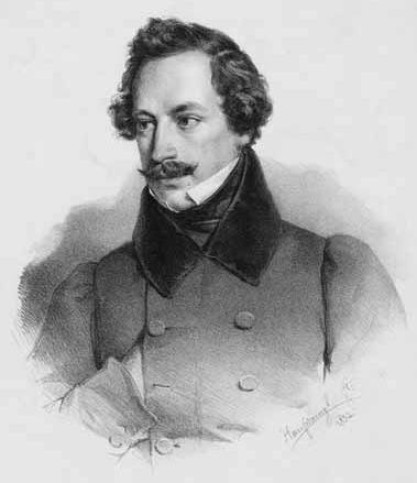 Peter Schöpf, lithography by Franz Hanfstaengl 1832